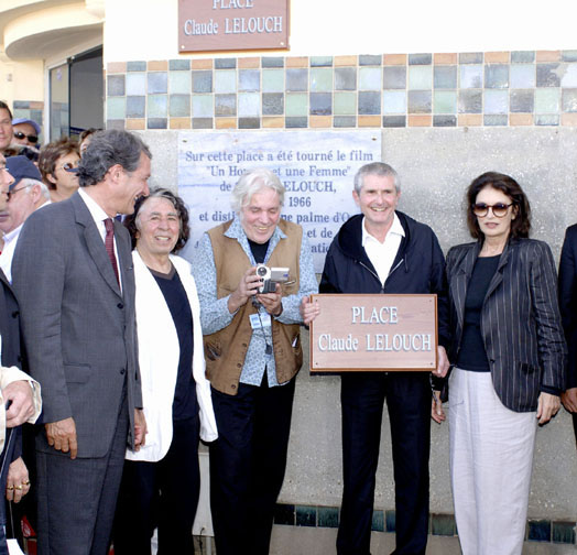 There is the Claude Lelouch street at Deauville.